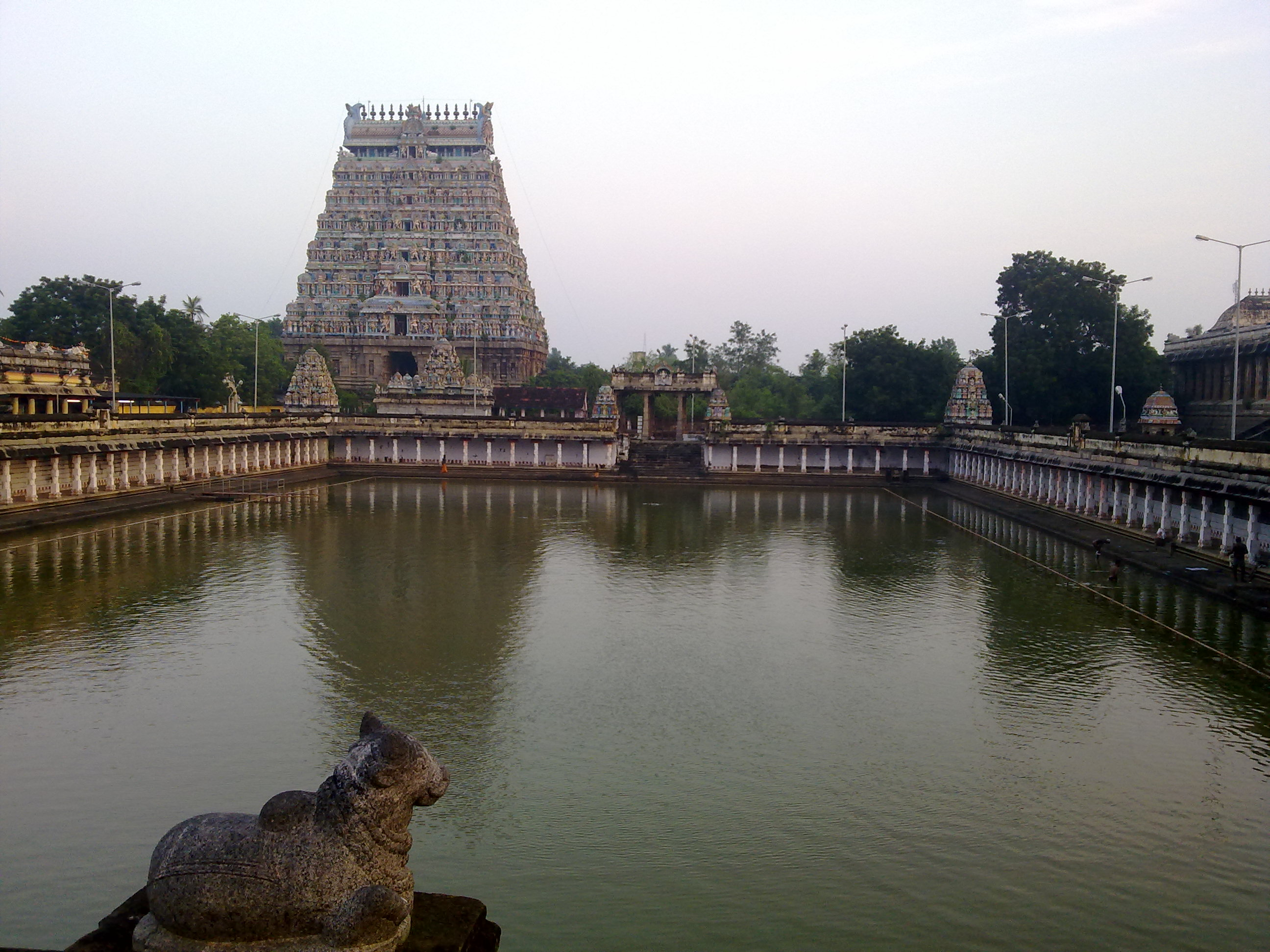 A view of North side Gopuram of Natraja temple